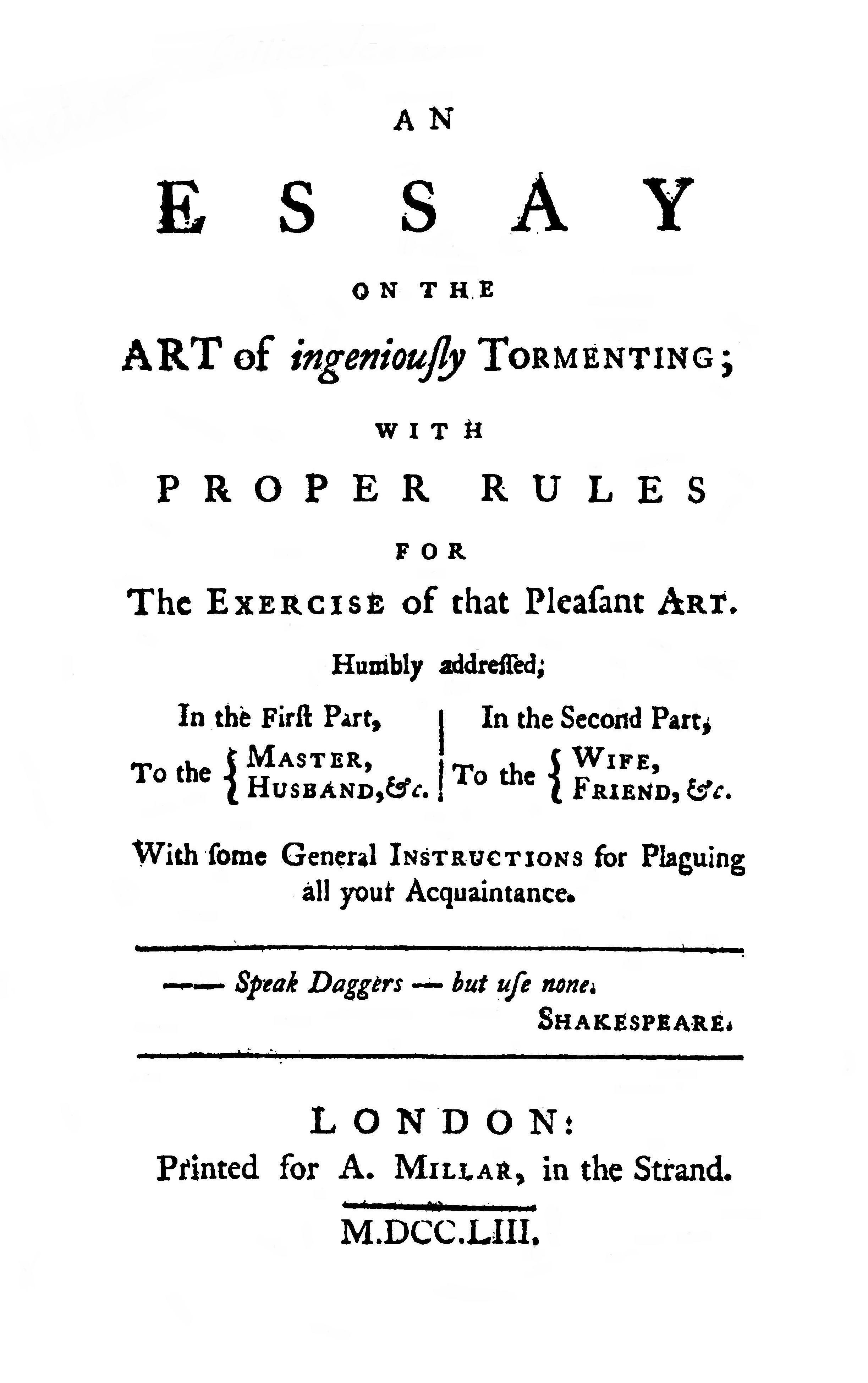 1st edition title page